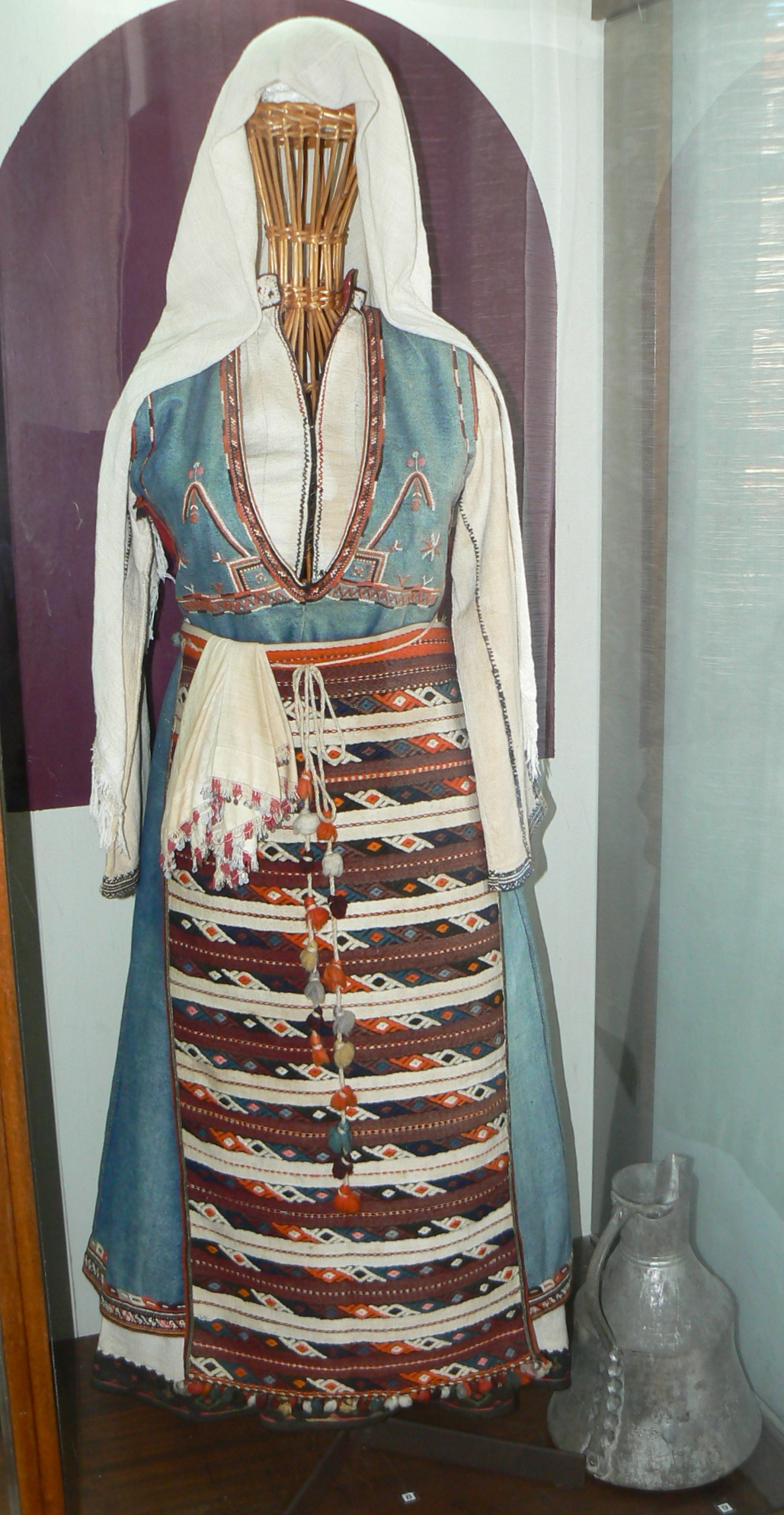 Traditional female costume from Burgas, Burgas ethnographic museum